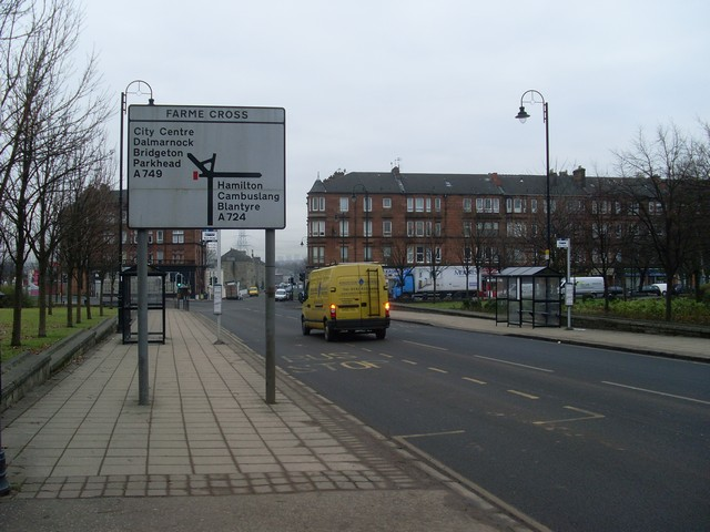 Approaching Farme Cross on Farmeloan Road Approaching the junction at Cambuslang Road in Dalmarnock.